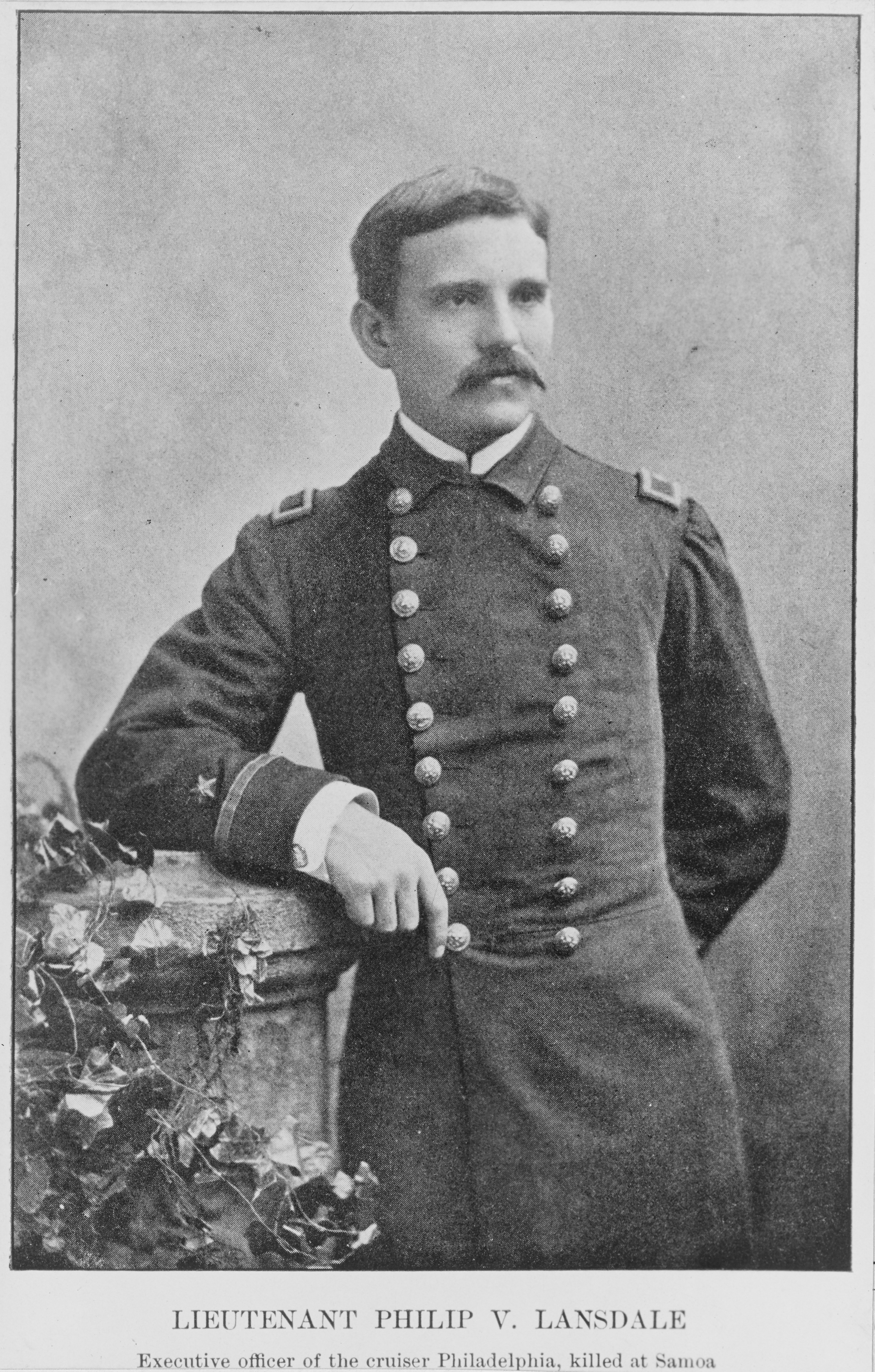 Lieutenant Philip V. Lansdale, killed at Samoa